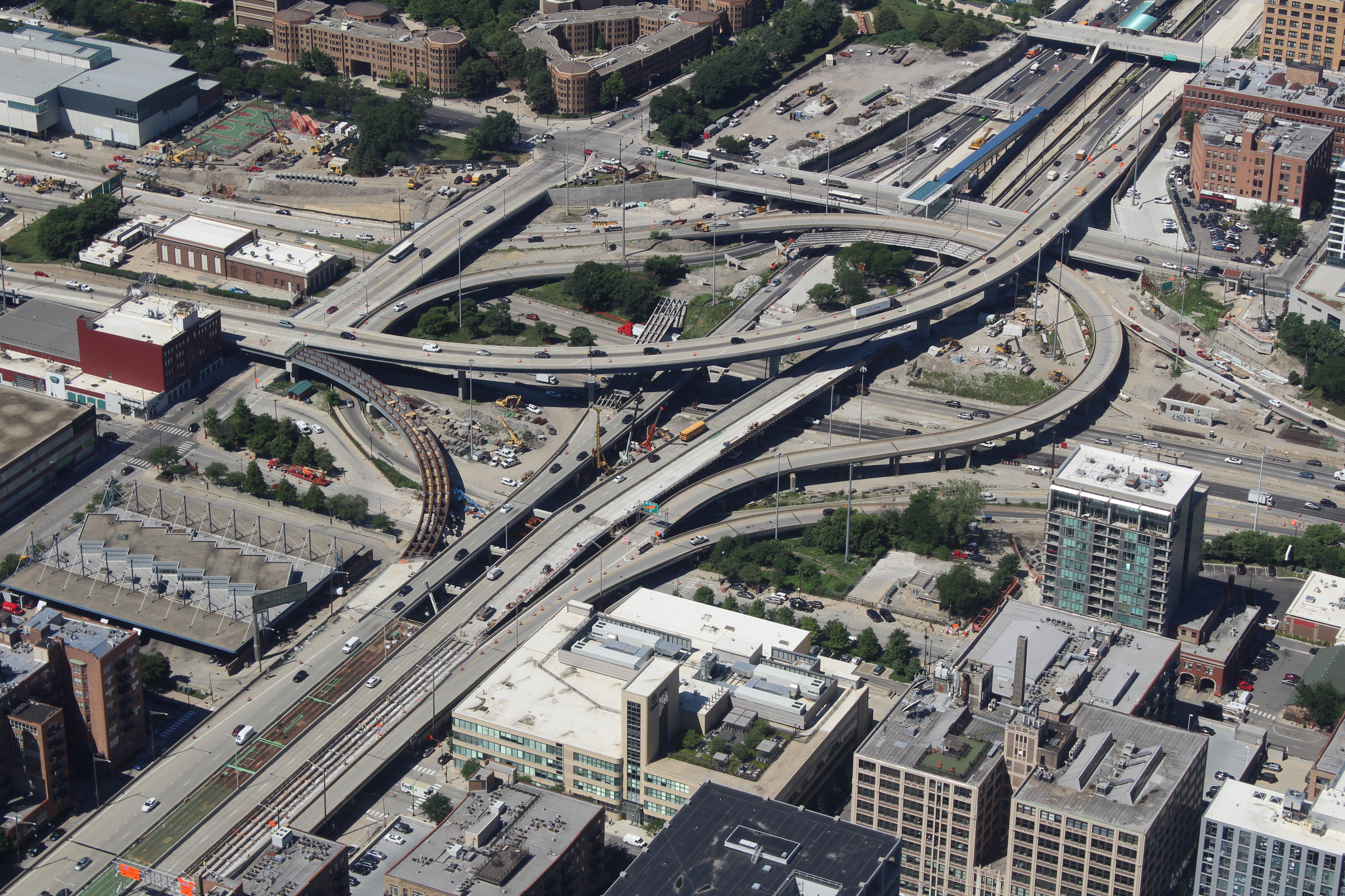 A view of the Circle Interchange from the Willis Tower in 2018. Photo by Chris6d.